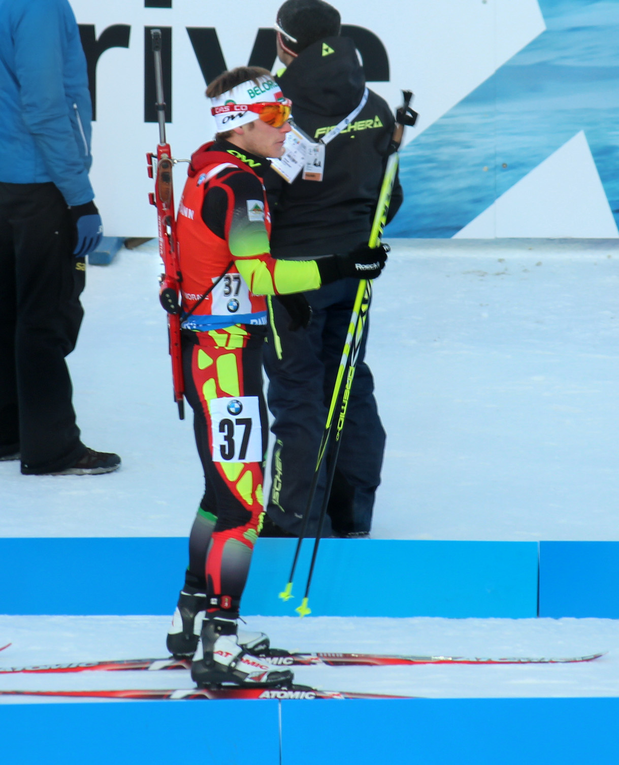 Yuryi Liadov at Biathlon World Cup 2015 in Nové Město, Czech Republic – sprint men